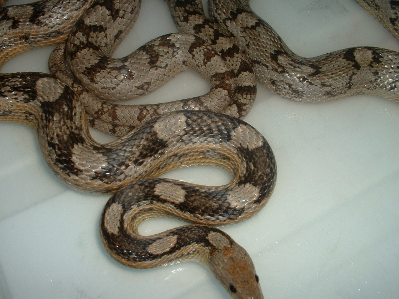 my first breeding of the season :D